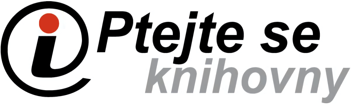 Logo of service Ptejte se knihovny